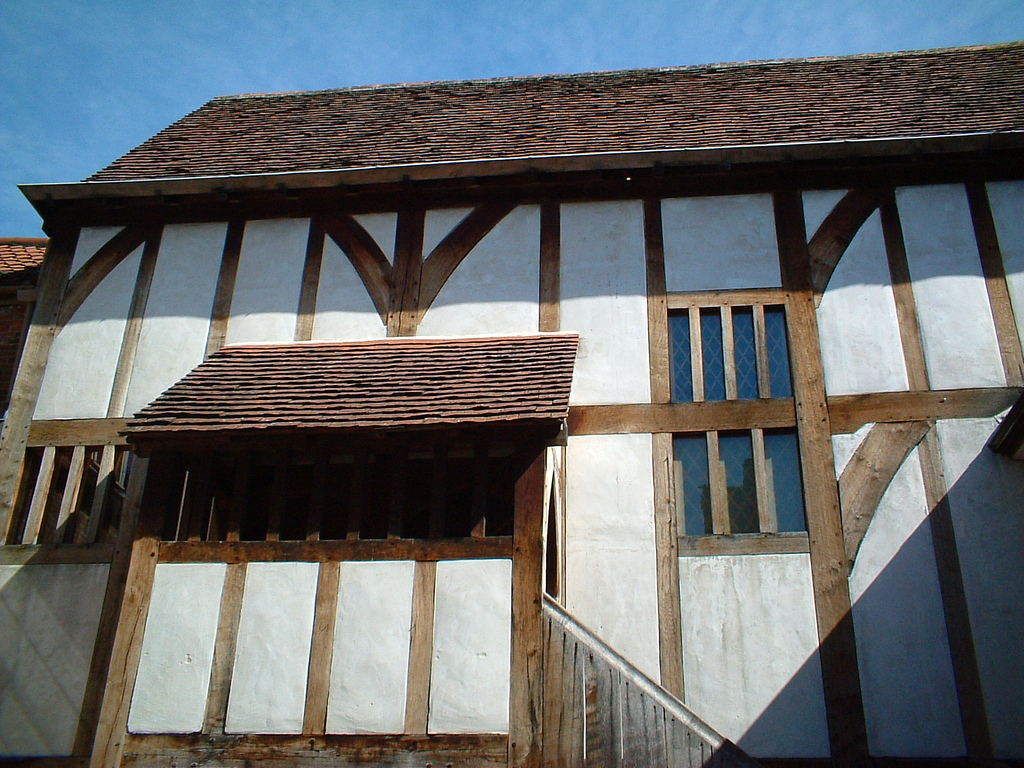 The outside of Barley Hall, York